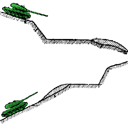 Anti-tank escarpes.